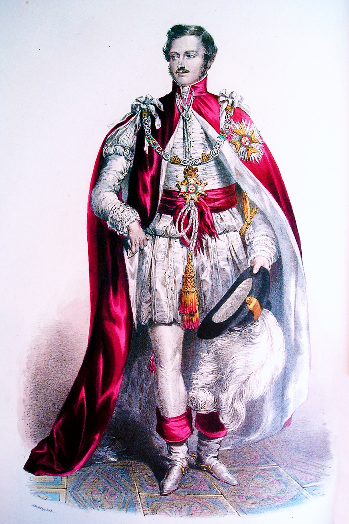 Prince Albert, the Prince Consort, wearing the robes of a Knight Grand Cross of the Order of the Bath